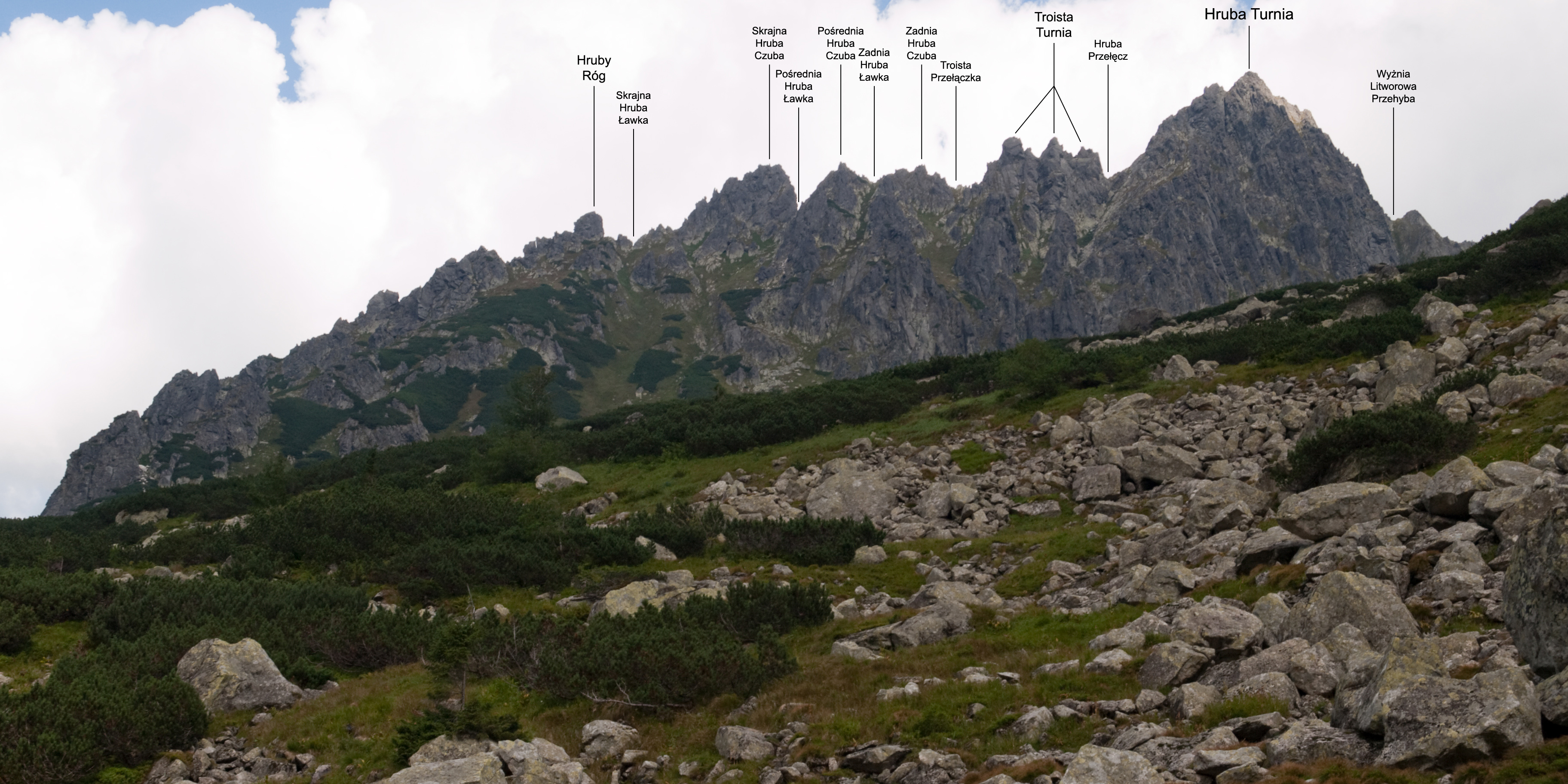 North-west ridge of Hrubá veža (Polish captions).